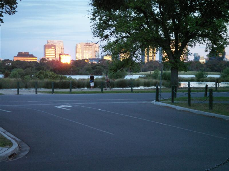 Evening view across Albert Park Lake, Melbourne, Australia. Friday, 6 November 2005.